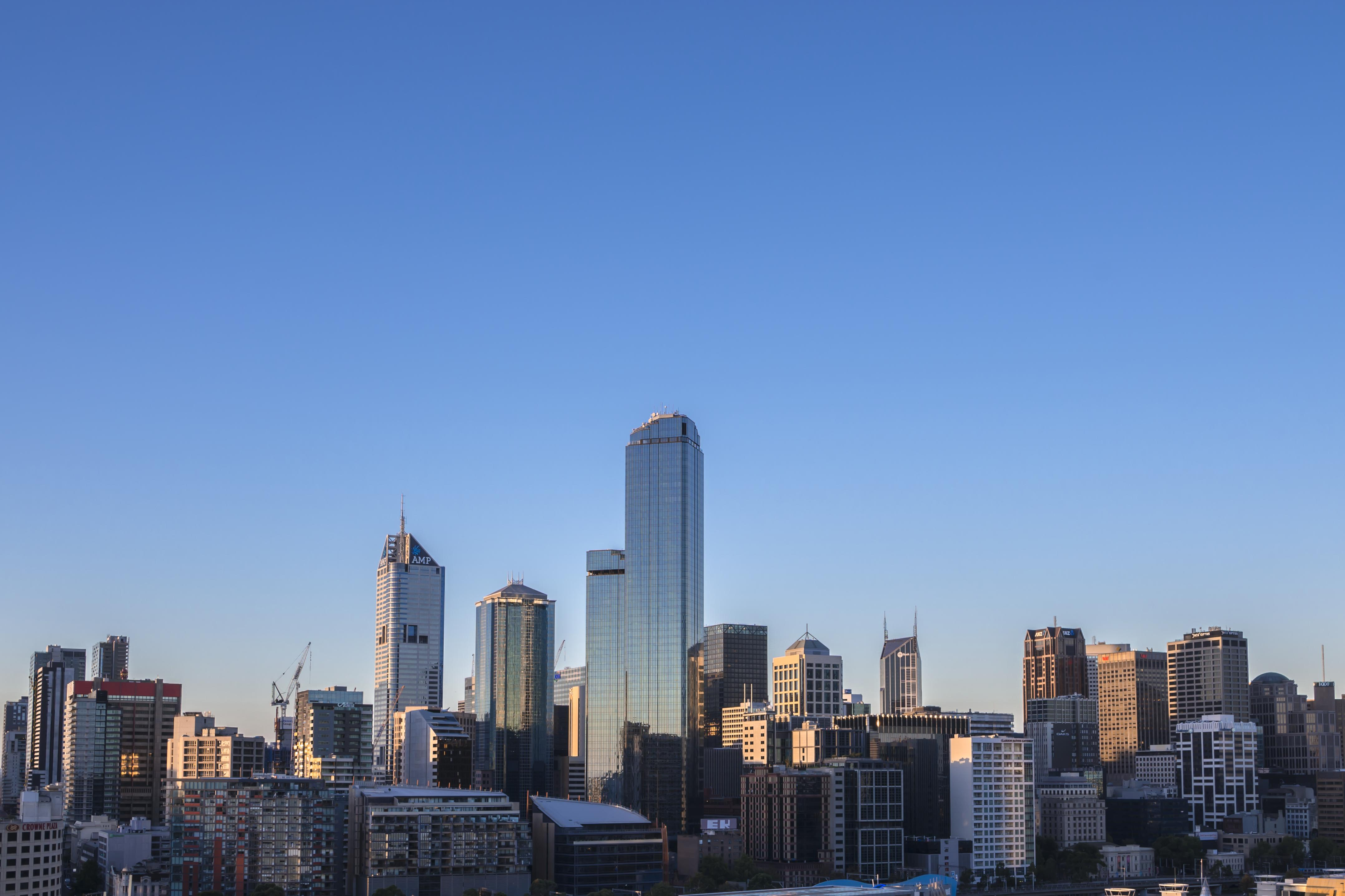 Melbourne City western skyline